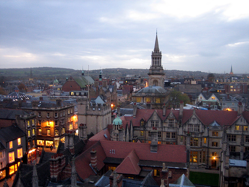 A view of Oxford city centre.